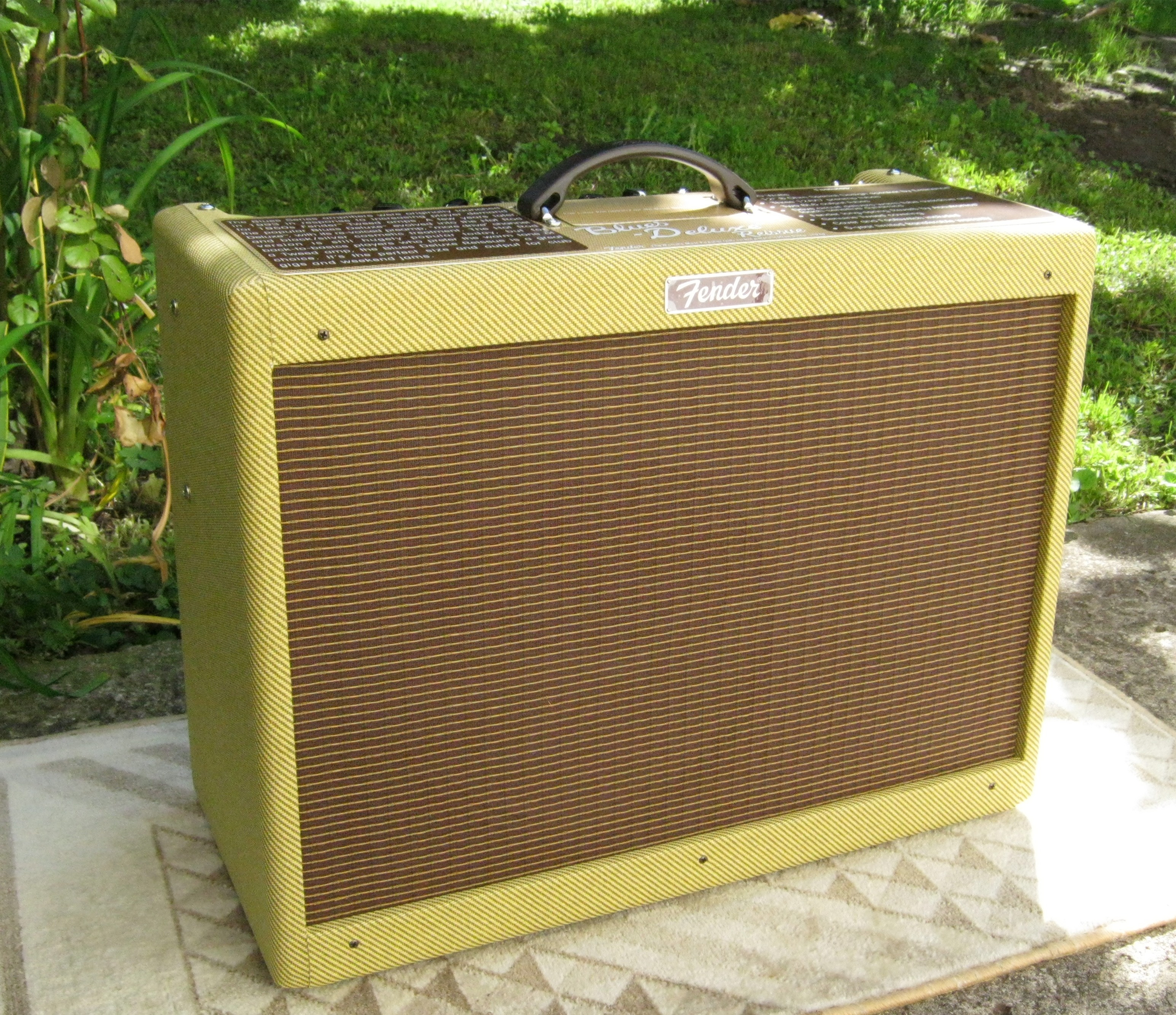 Fender blues deluxe amplifier